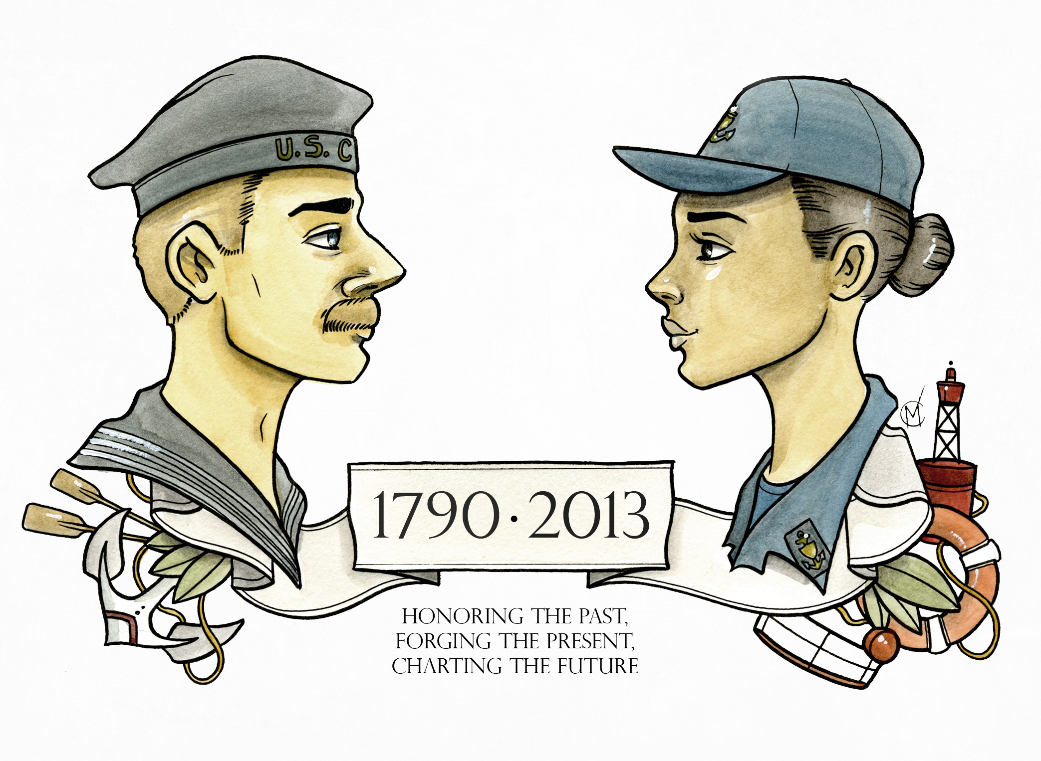 Coast Guard Day 2013 (2013), by Cory Mendenhall.